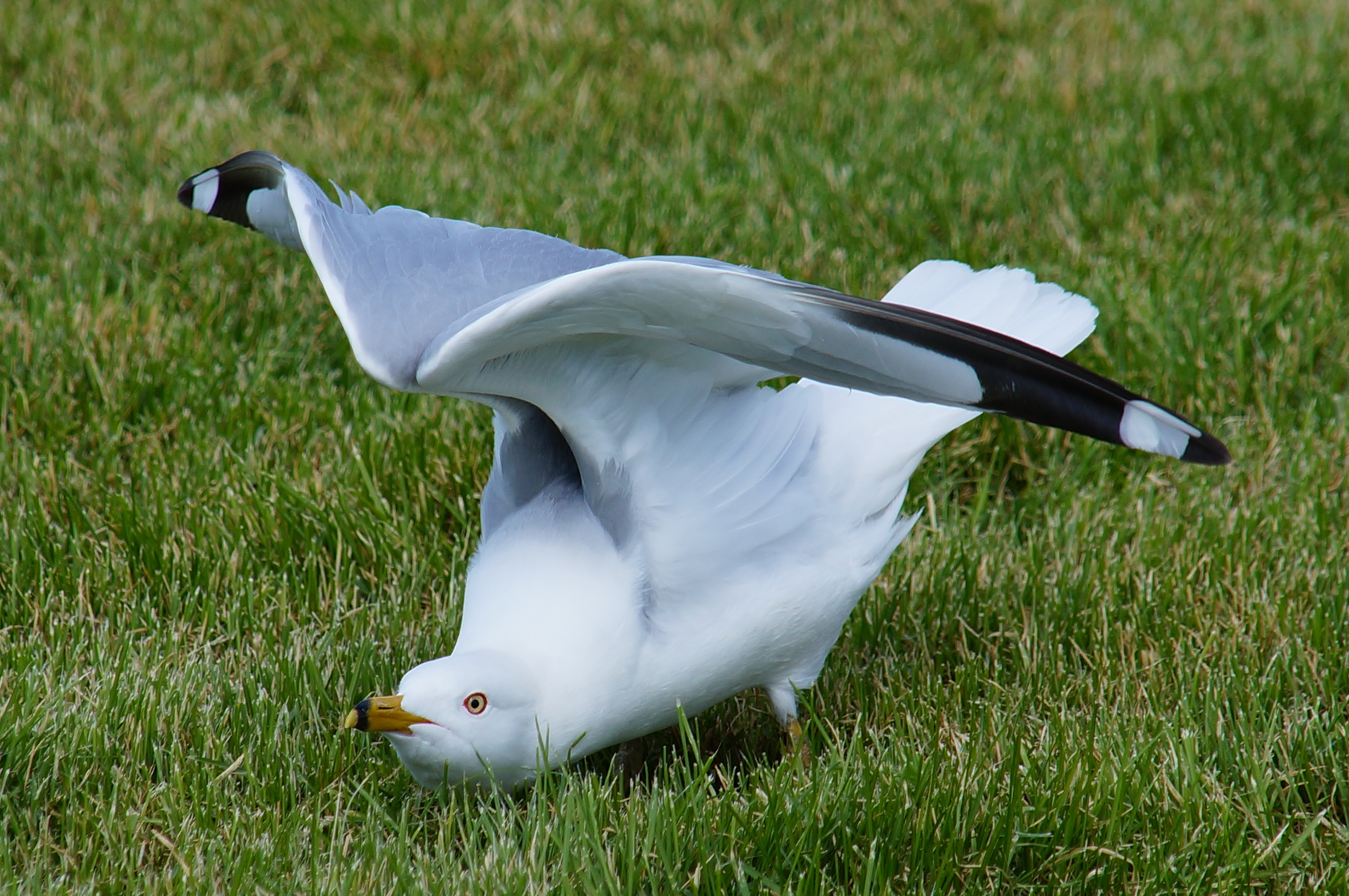 Posed or postured while I was photographing it in the rest stop near the Weed Airport in California.